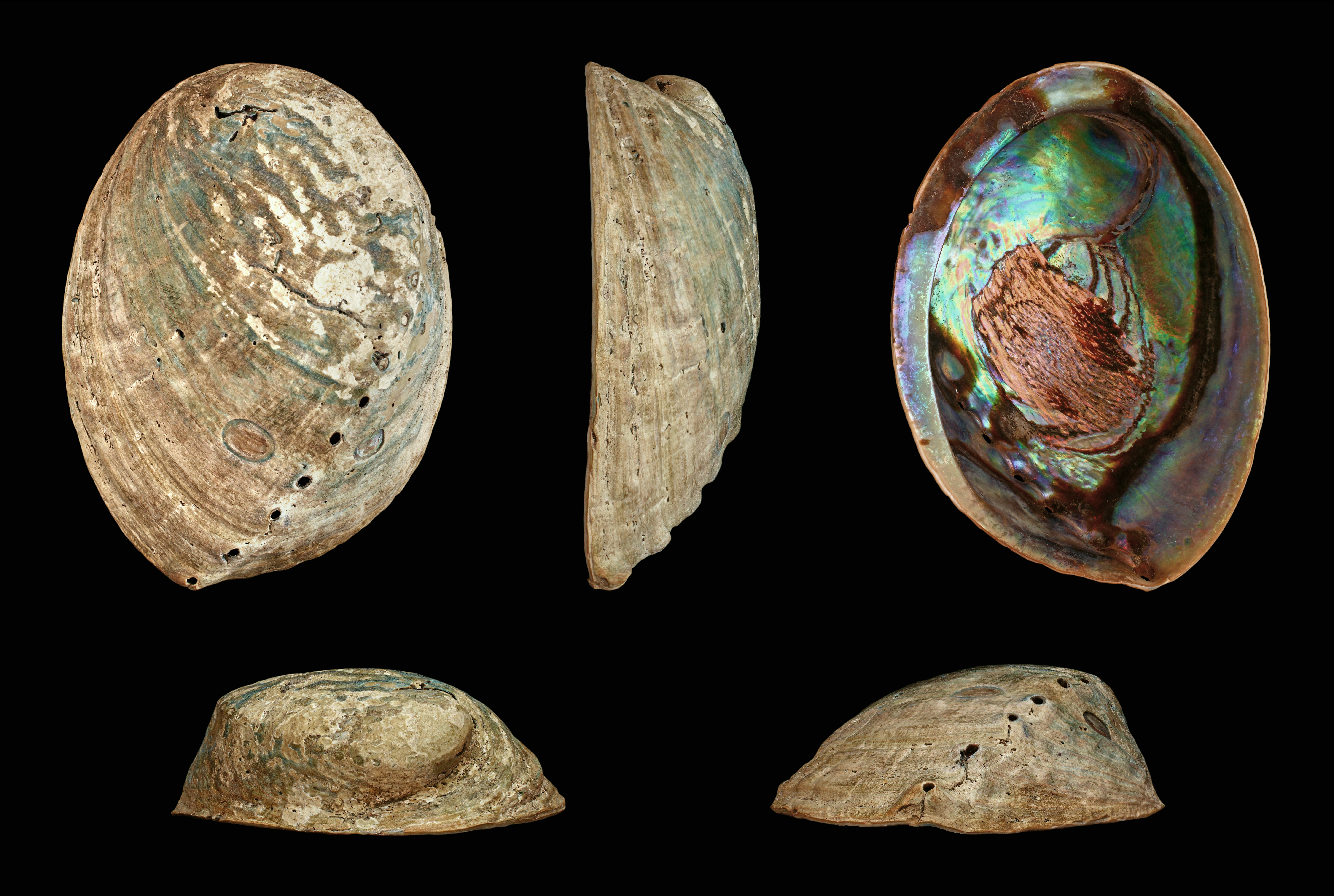 Rainbow Abalone; Length 13.5 cm; Originating from New Zealand; Shell of own collection, therefore not geocoded.